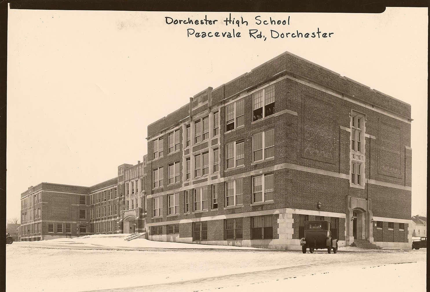 Dorchester High School: Exterior